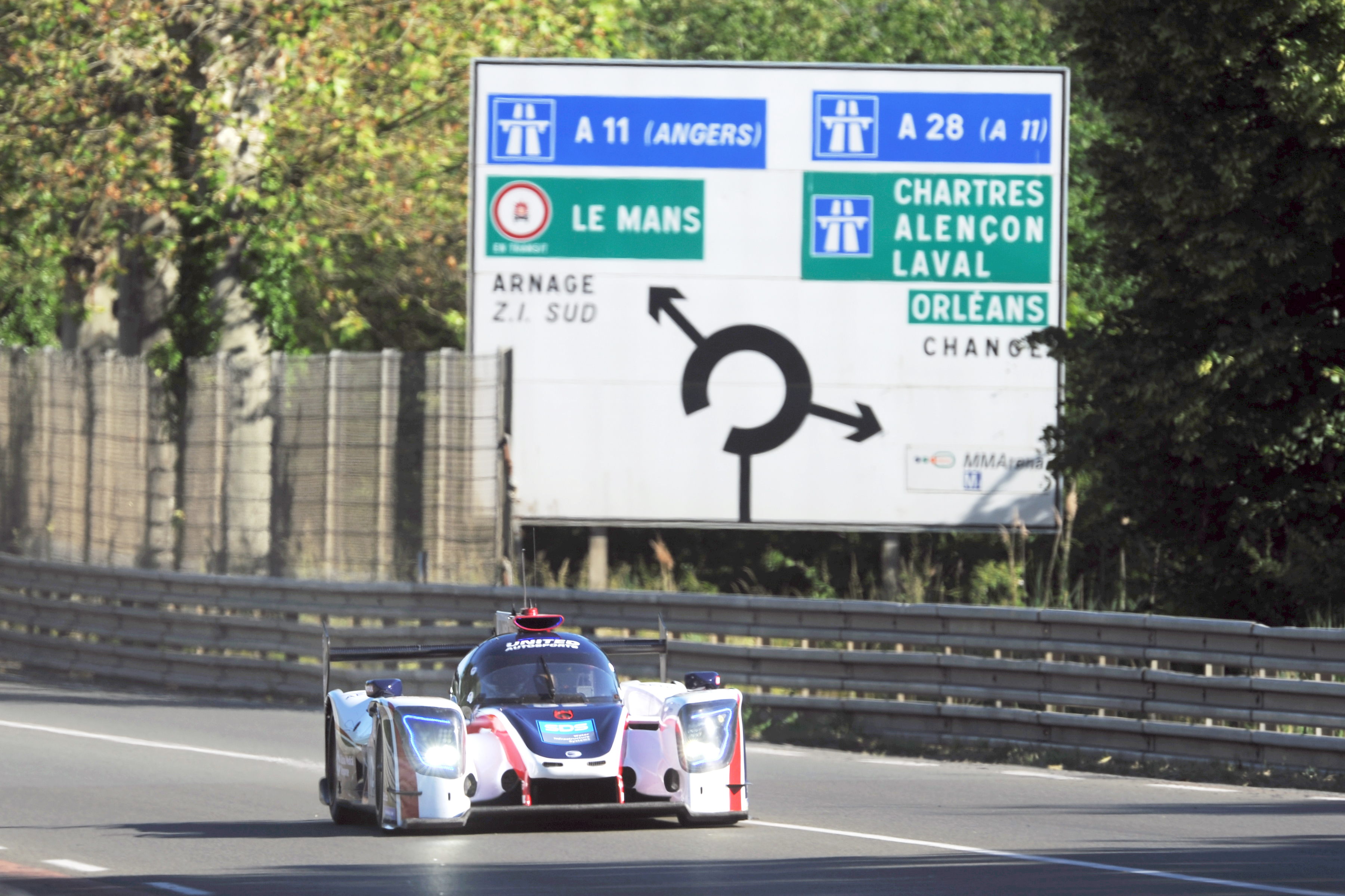 United Autosports at 2019 Le Mans test